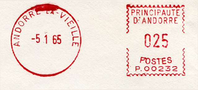 International Postage Meter Stamp Catalog image, Andorra type A1